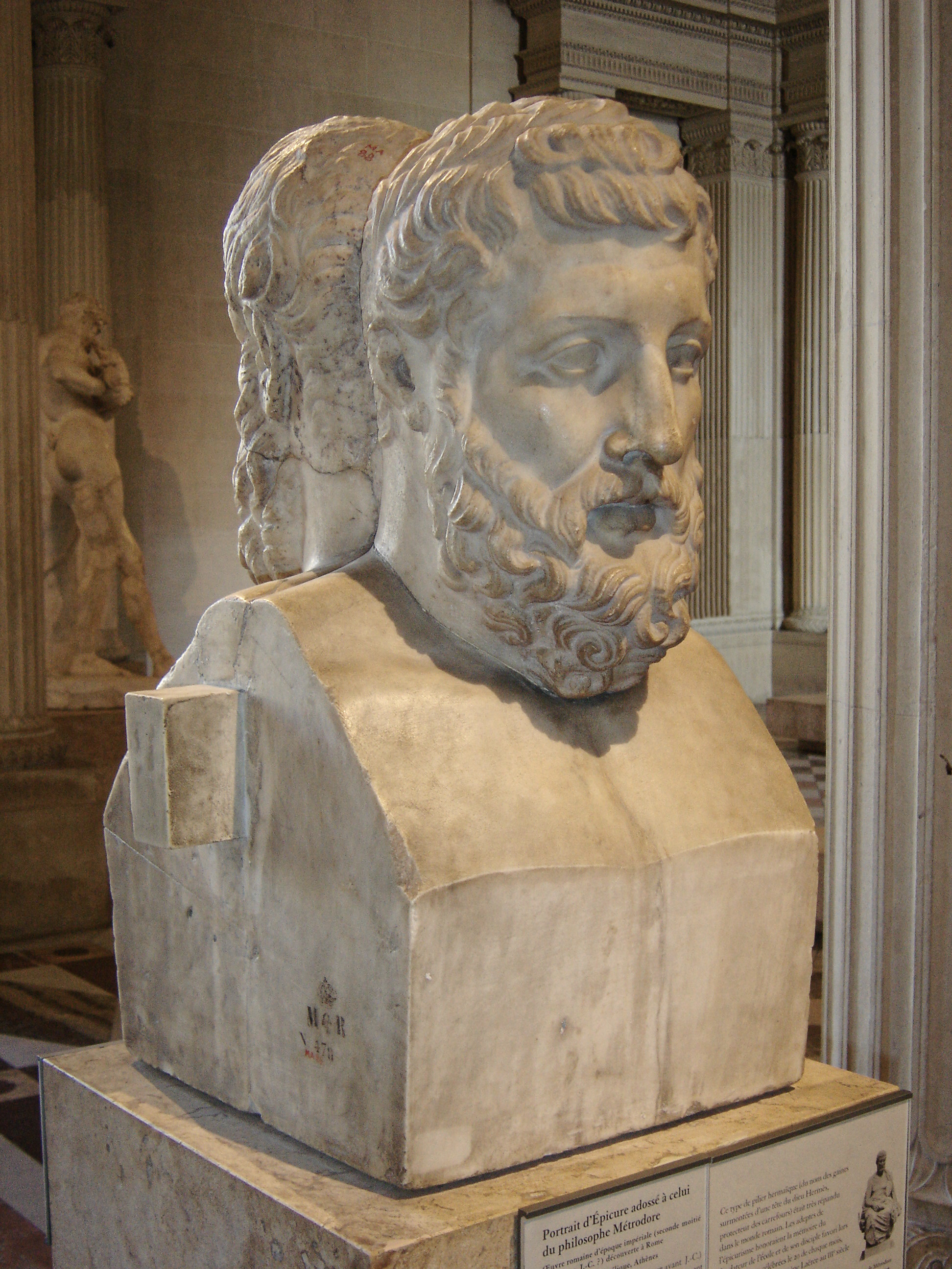 Hermes-type bust (pillar with the top as a sculpted head) of Metrodorus of Lampsacus (the younger) leaned with his back against Epicurus (note : the legend at the bottom of the hermes is mixed with the Epicurus side). Pentelic marble, Roman artwork, Imperial Era (2nd-half of the 2nd century ?). Found in Rome, Italy.